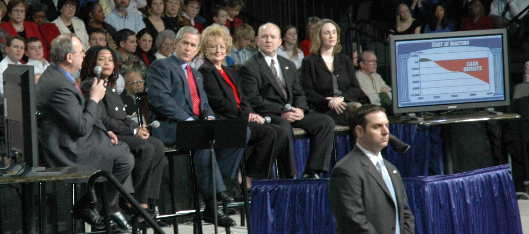 George W. Bush in the Qwest Center in Omaha, Nebraska (cropped from Image:George W. Bush Omaha panel.jpg) 5